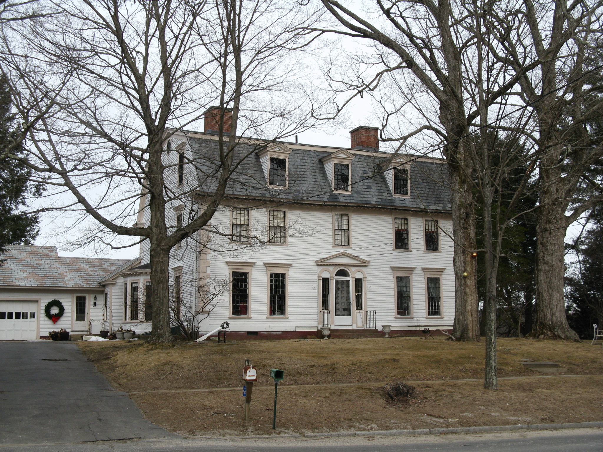 Woodbridge Hall, Southampton Massachusetts